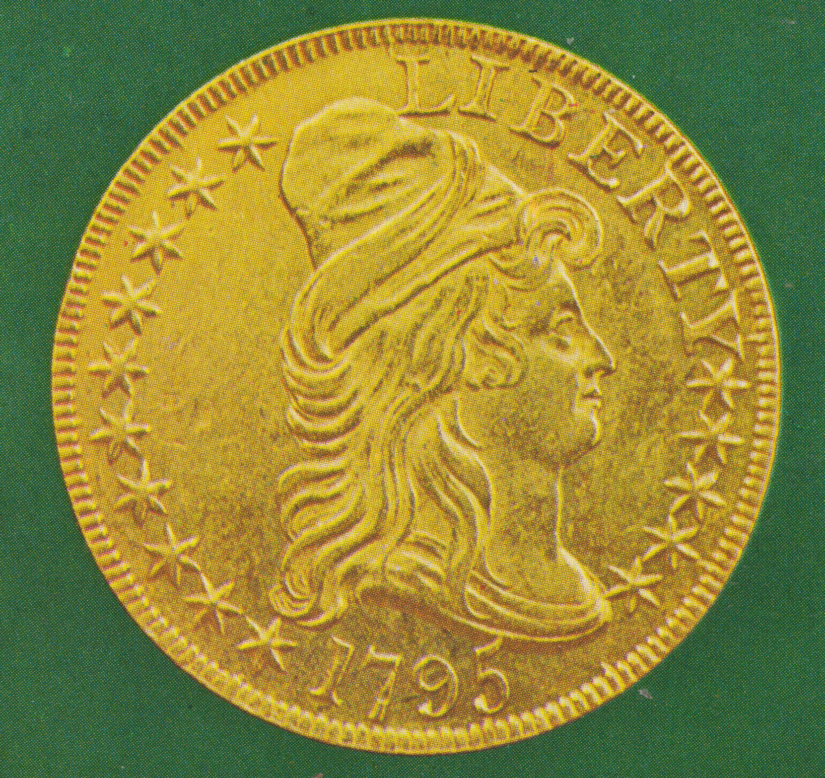 1795 eagle obverse. Book published without copyright notice (apparently a free work).